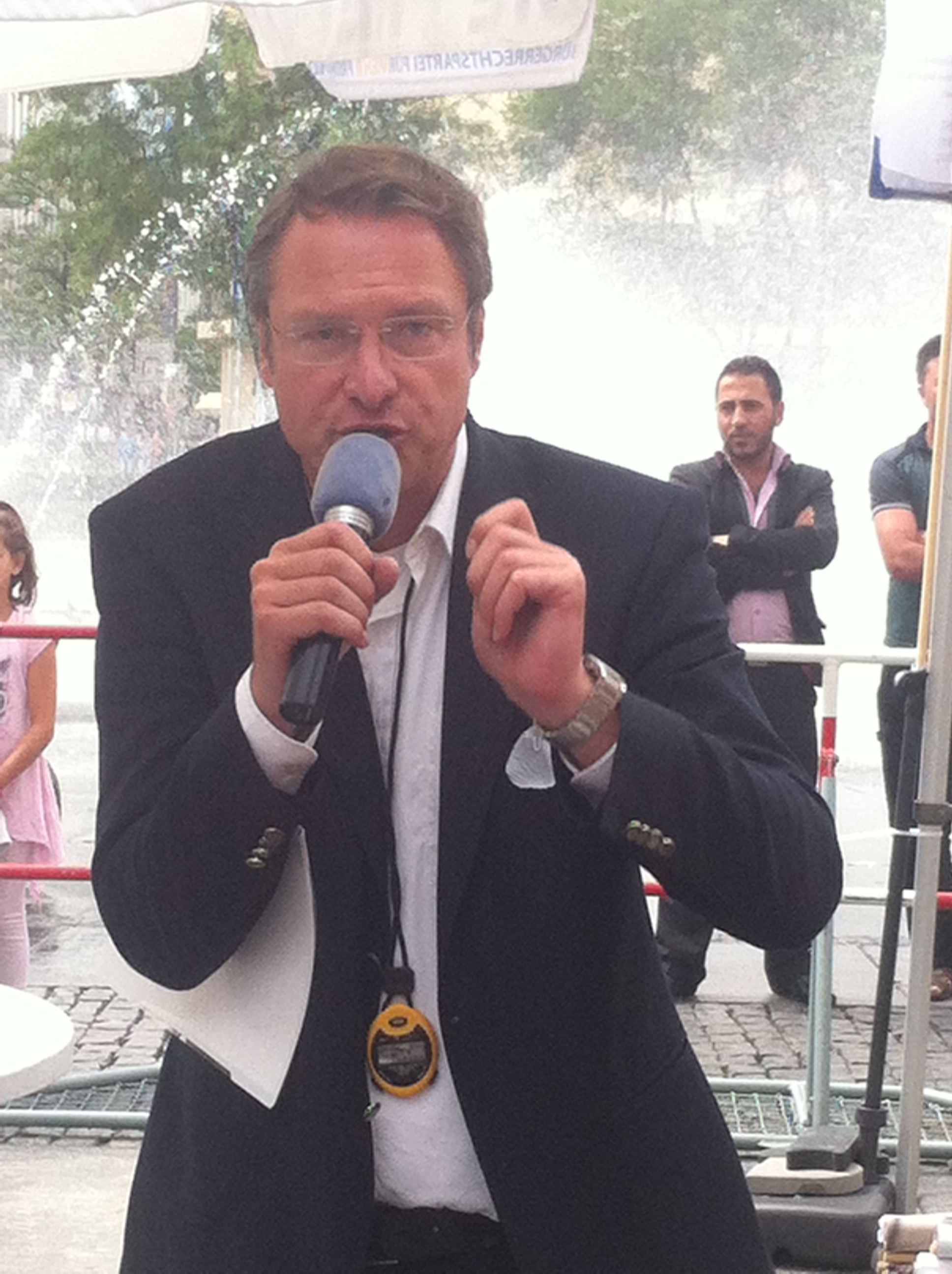 Michael Stürzenberger speaking at rally on 13 July 2014 at Karlsplatz (Stachus), Munich